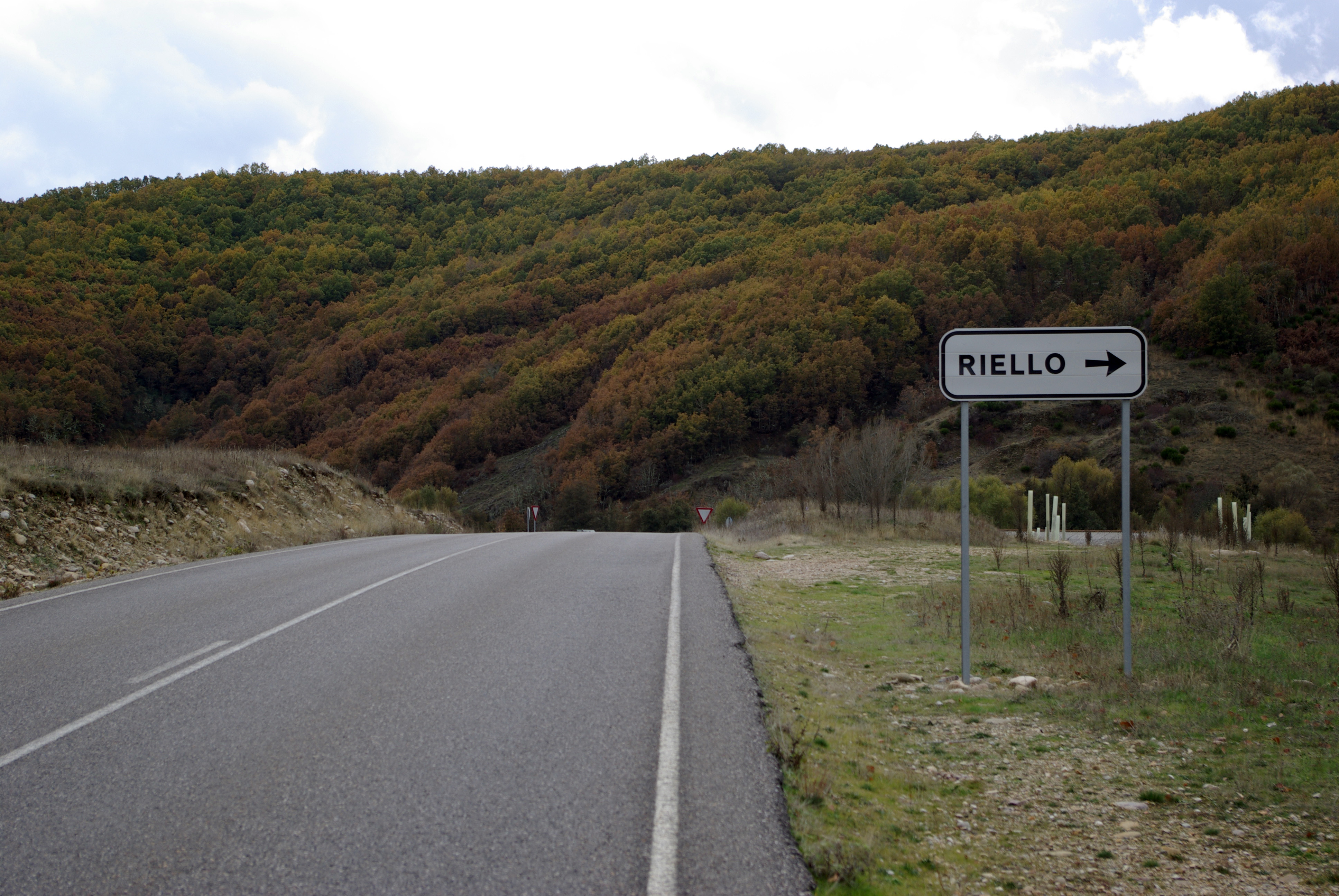 Road CV-128-19 junction Southern Riello (León, Spain).